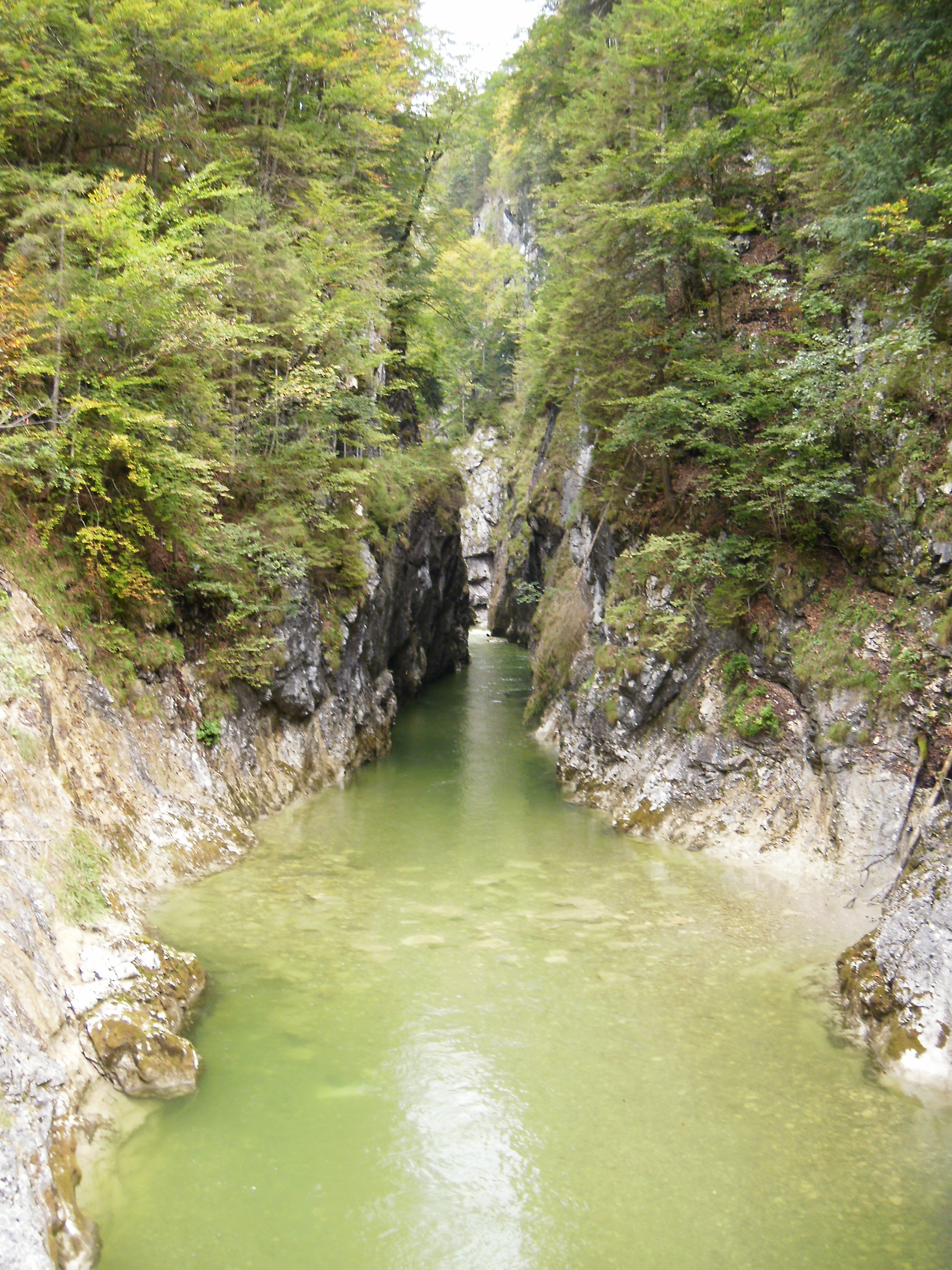 Kaiserklamm